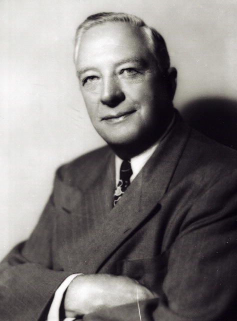 1950 Braniff File Photo of Braniff Airways Founder and President Thomas Elmer Braniff.